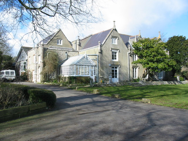 Leeson House Langton Matravers near Swanage Dorset. A residential field studies centre.see more See supplemental for info on Wartime use.